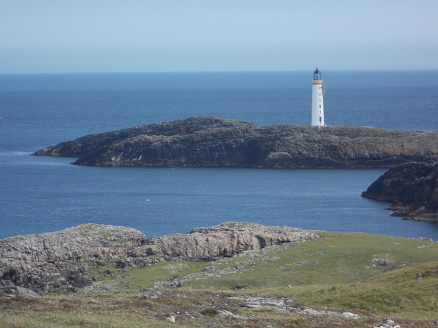 Out Skerries: Bound Skerry from Bruray Ward